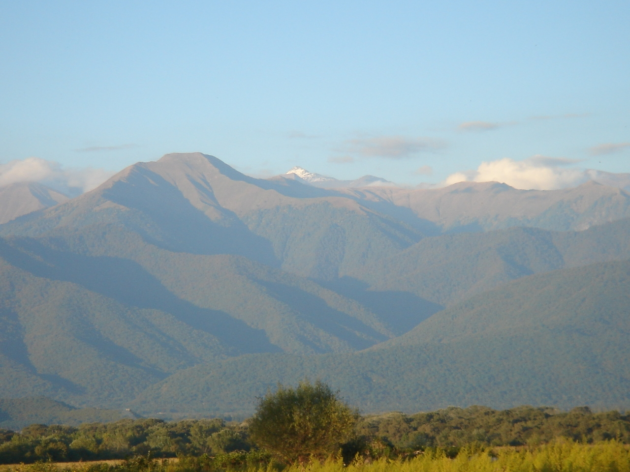 The Alazani River Plain, with the Caucasus Mountains in the background, view from Telavi